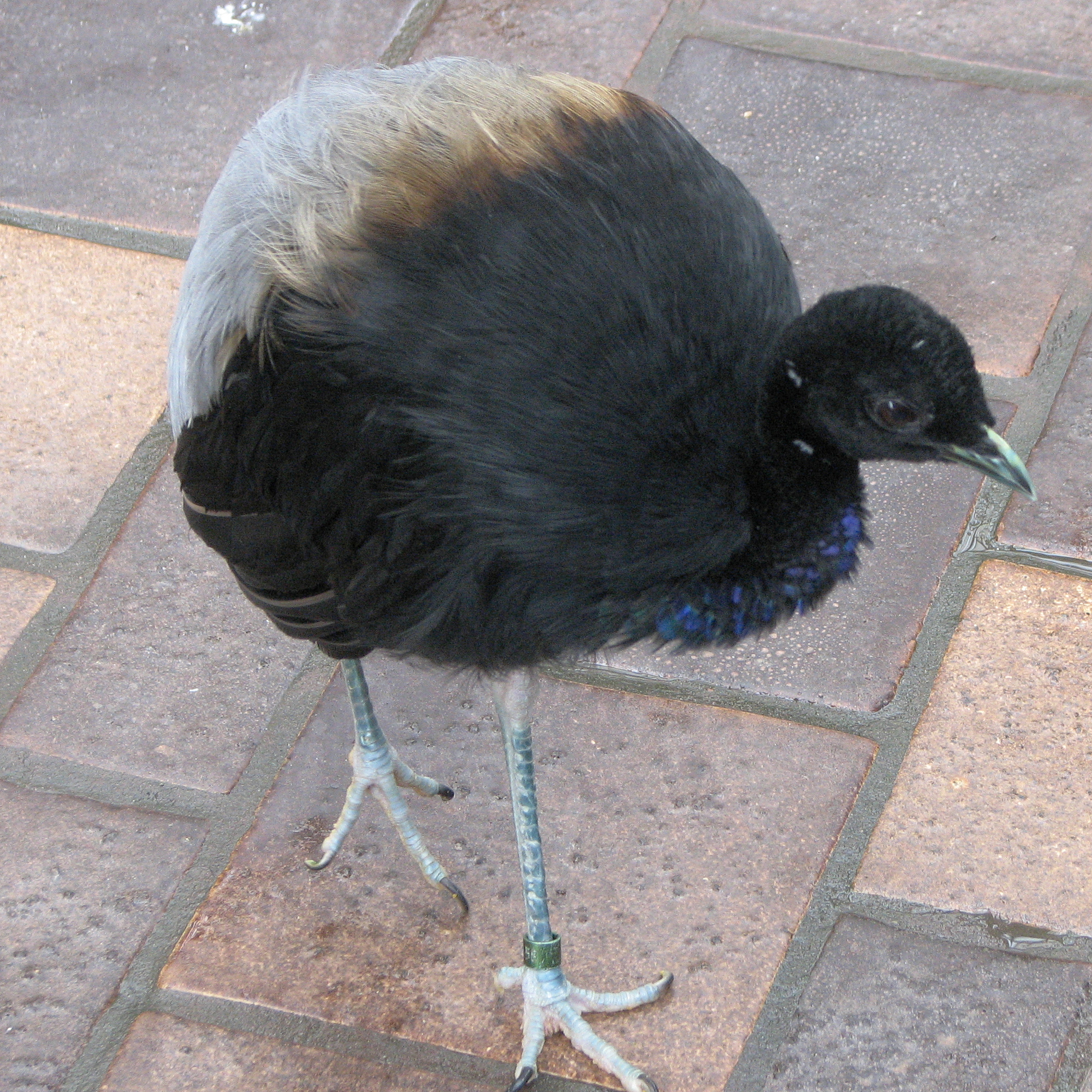 A photograph of the Grey-winged Trumpeteren (Psophia crepitans en ). Photo taken at the National Aviary.